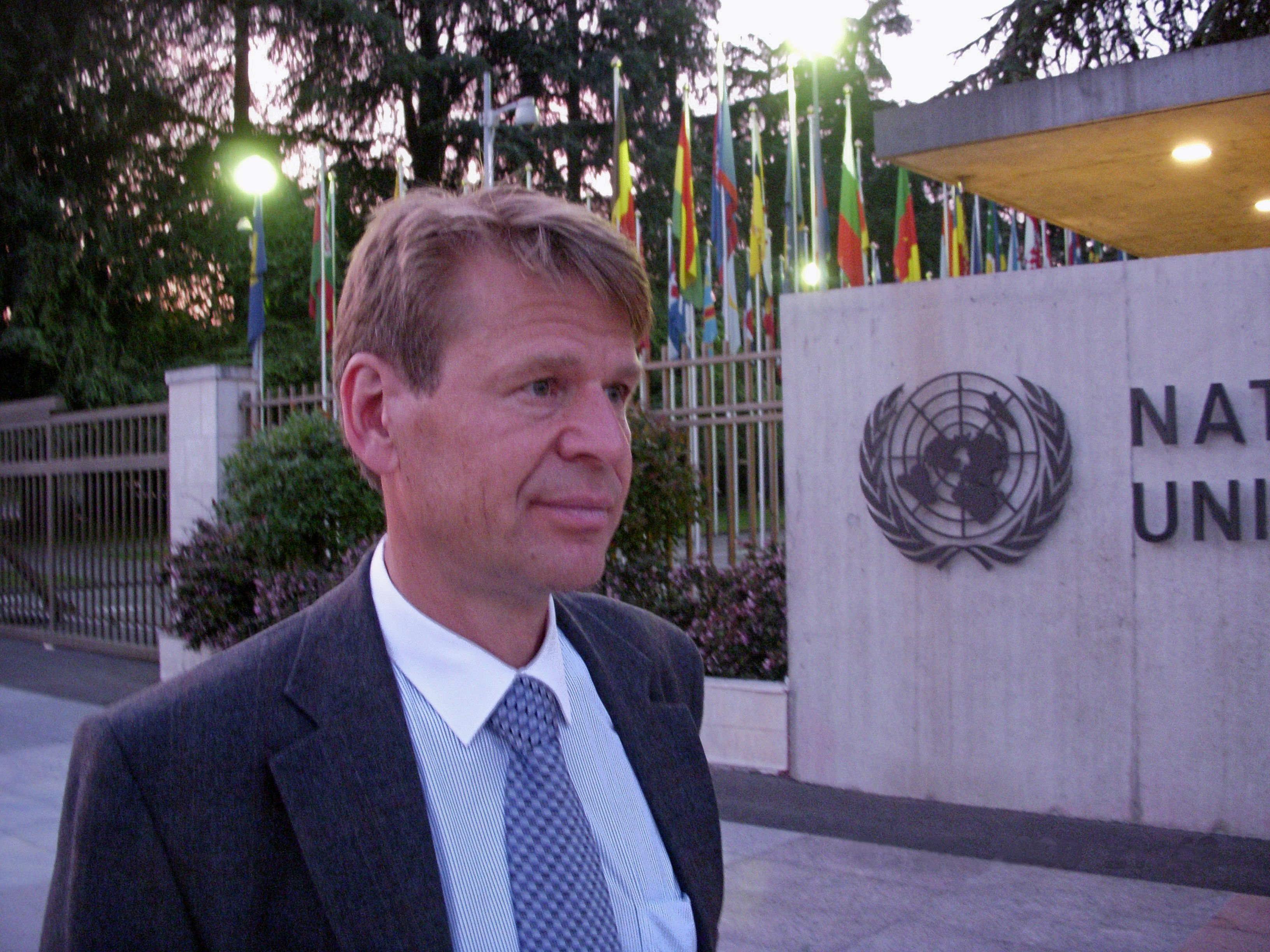 Martin Scheinin, United Nations Special Rapporteur on the protection of human rights while countering terrorism, in front of Palais des Nations in Geneva, Switzerland.